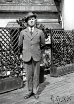 Maks Sever (1883-1967), Slovenian businessman